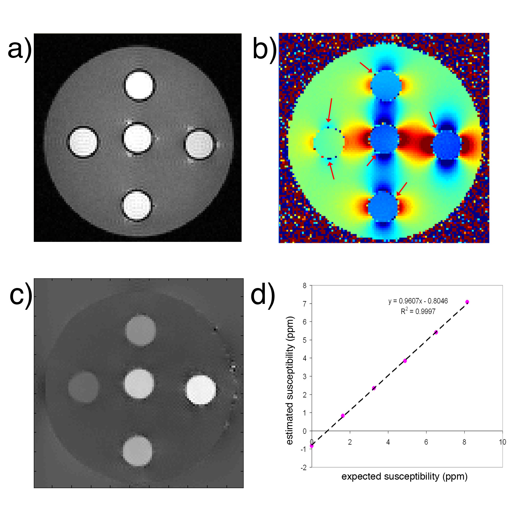 Using QSM to quantify gadolinium concentrations in a water phantom